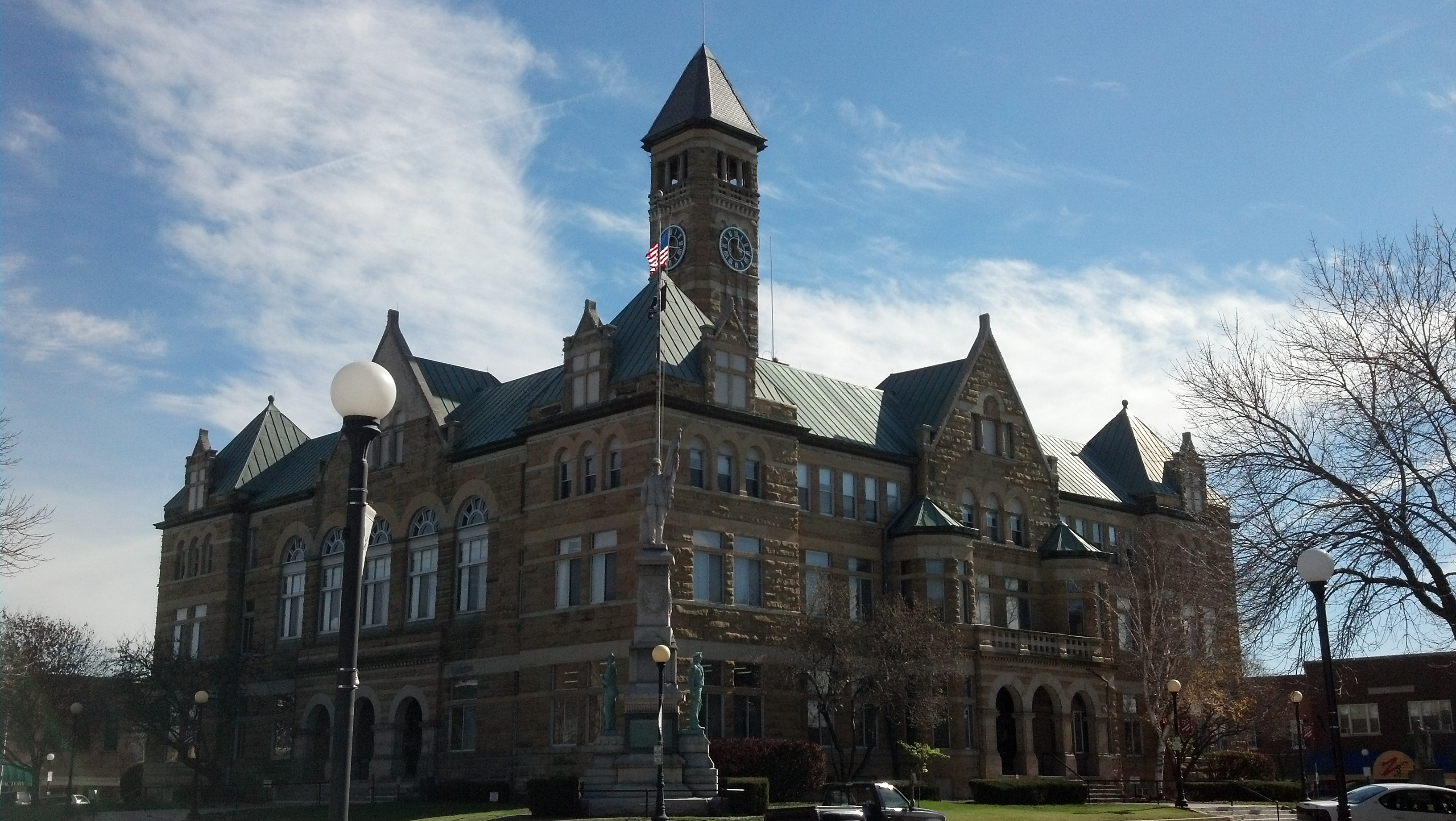 Coles County Courthouse